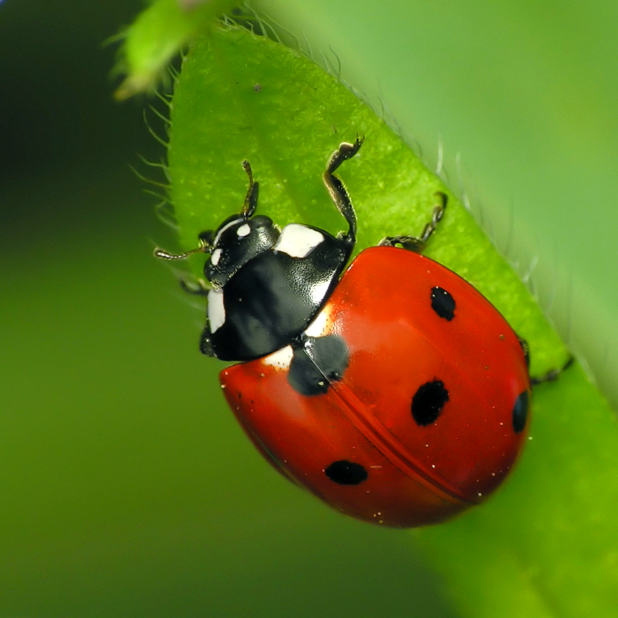 7-Spotted Ladybug / Ladybird - Coccinella septempunctata